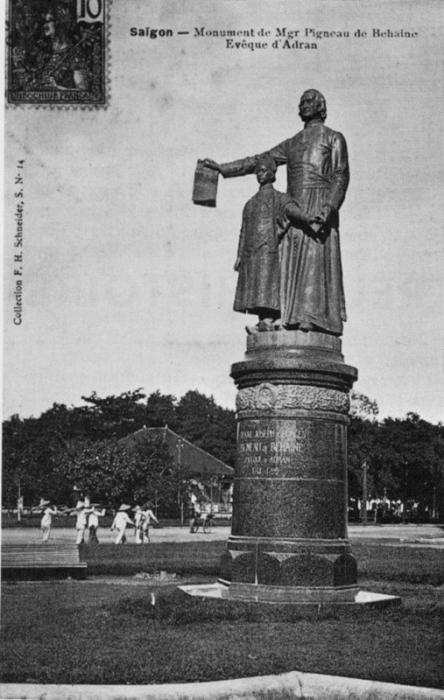 Statue of Pigneau de Behaine in Saigon, near Notre-Dame cathedral.